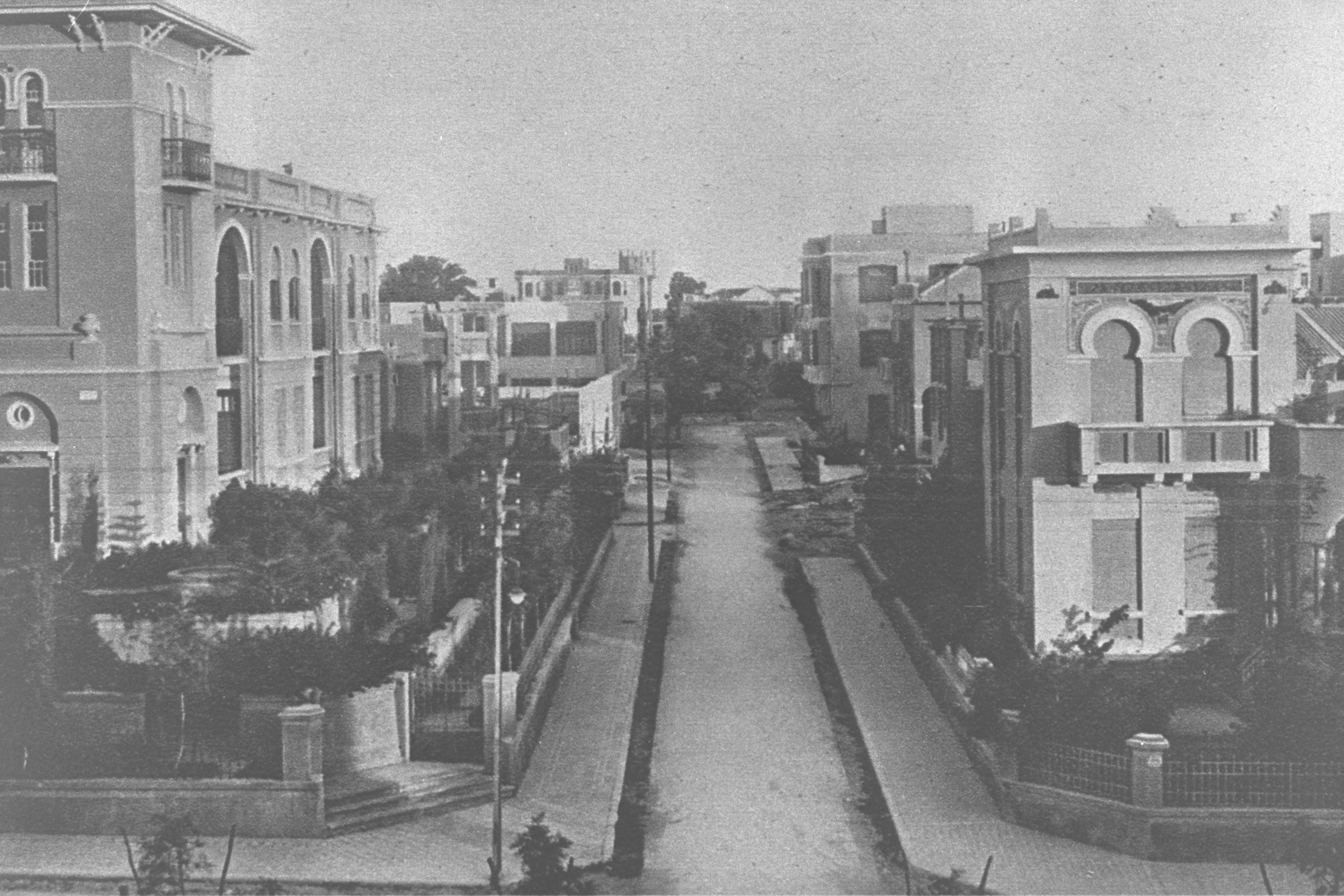 SHADAL STREET IN TEL AVIV. רחוב שדל בתל אביב.